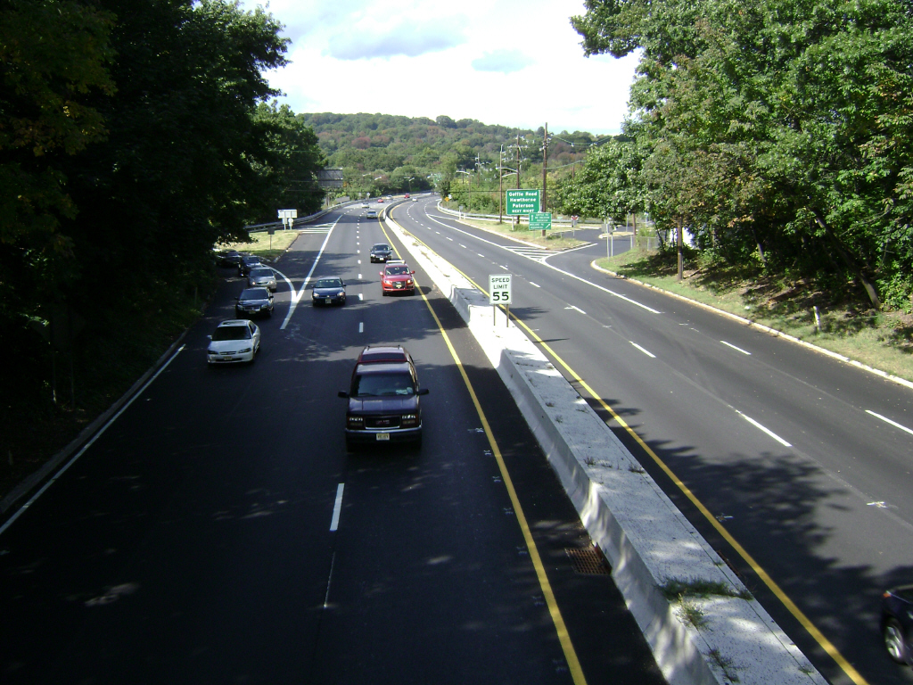 Freshly paved NJ 208 observed facing northwest from the North Ethel Ave pedestrian bridge in Hawthorne on October 4, 2009. The intersection with CR 659 Goffle Road is seen just before the road curves and begins to climb the eastern flank of Goffle Hill. Image taken by me.